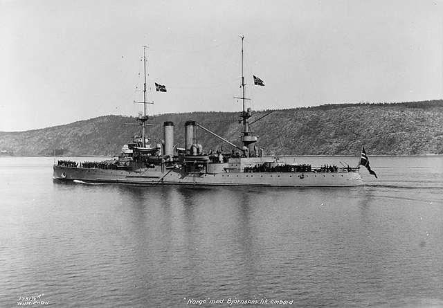 The Norwegian coastal defence ship HNoMS Norge during her transfer of Norwegian writer Bjørnstjerne Bjørnson's coffin from France to Norway. Image text (in Norwegian): "Norge with Bjørnson's corpse on board."